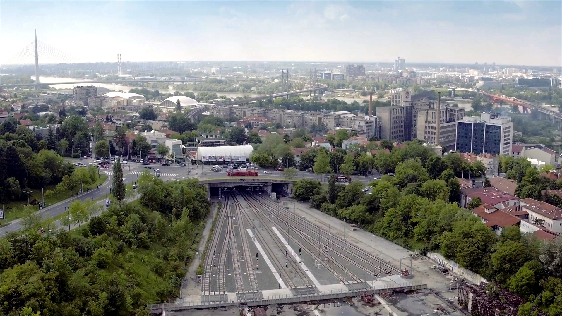 Prokop east entrance